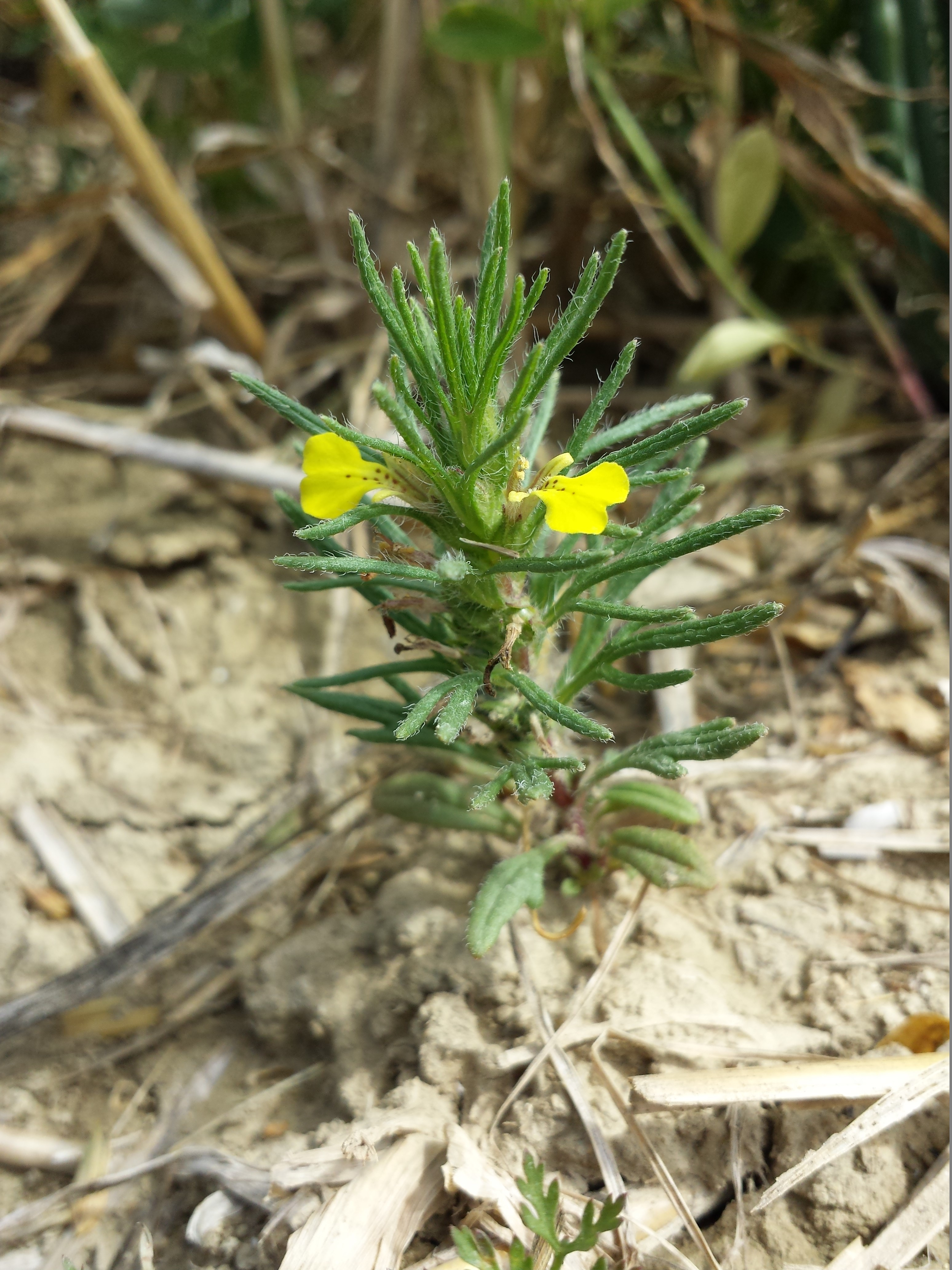 Habitus Taxon: Ajuga chamaepitys (sensu Fischer et al. EfÖLS 2008 ISBN 978-3-85474-187-9) Location: Haulesbergen, Ulrichskirchen-Schleinbach, district Mistelbach, Lower Austria - ca. 200 m a.s.l. Habitat: field